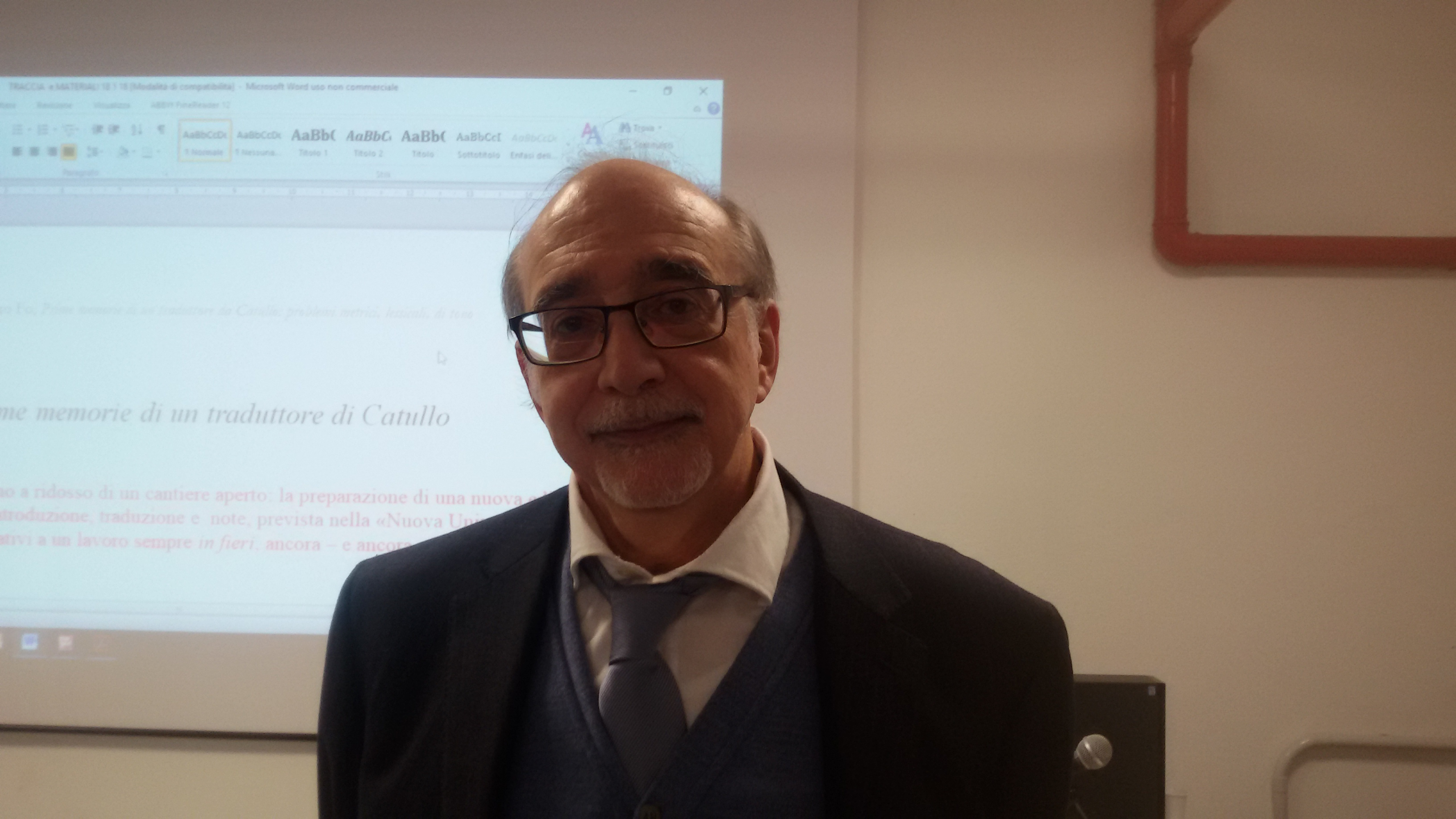 Alessandro Fo